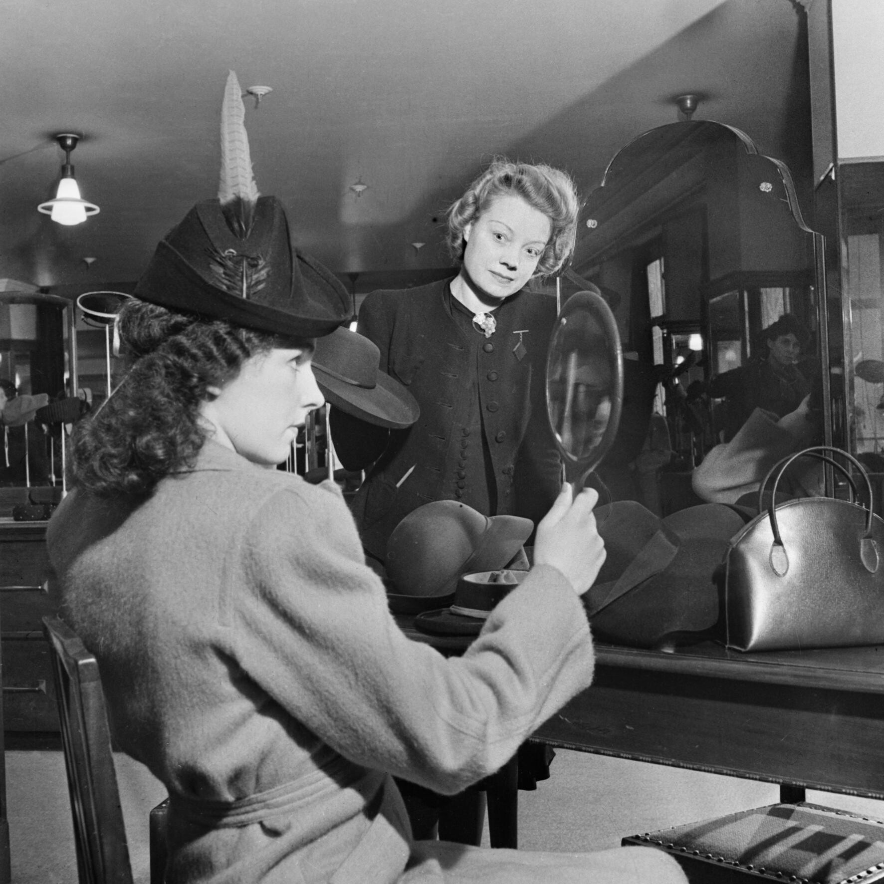 A customer tries on a new hat in the millinery department of Bourne and Hollingsworth on London's Oxford Street in 1942. A female customer tries on a new hat in the millinery department of Bourne and Hollingsworth on London's Oxford Street. She is examining her appearance in a mirror as the sales assistant looks on.